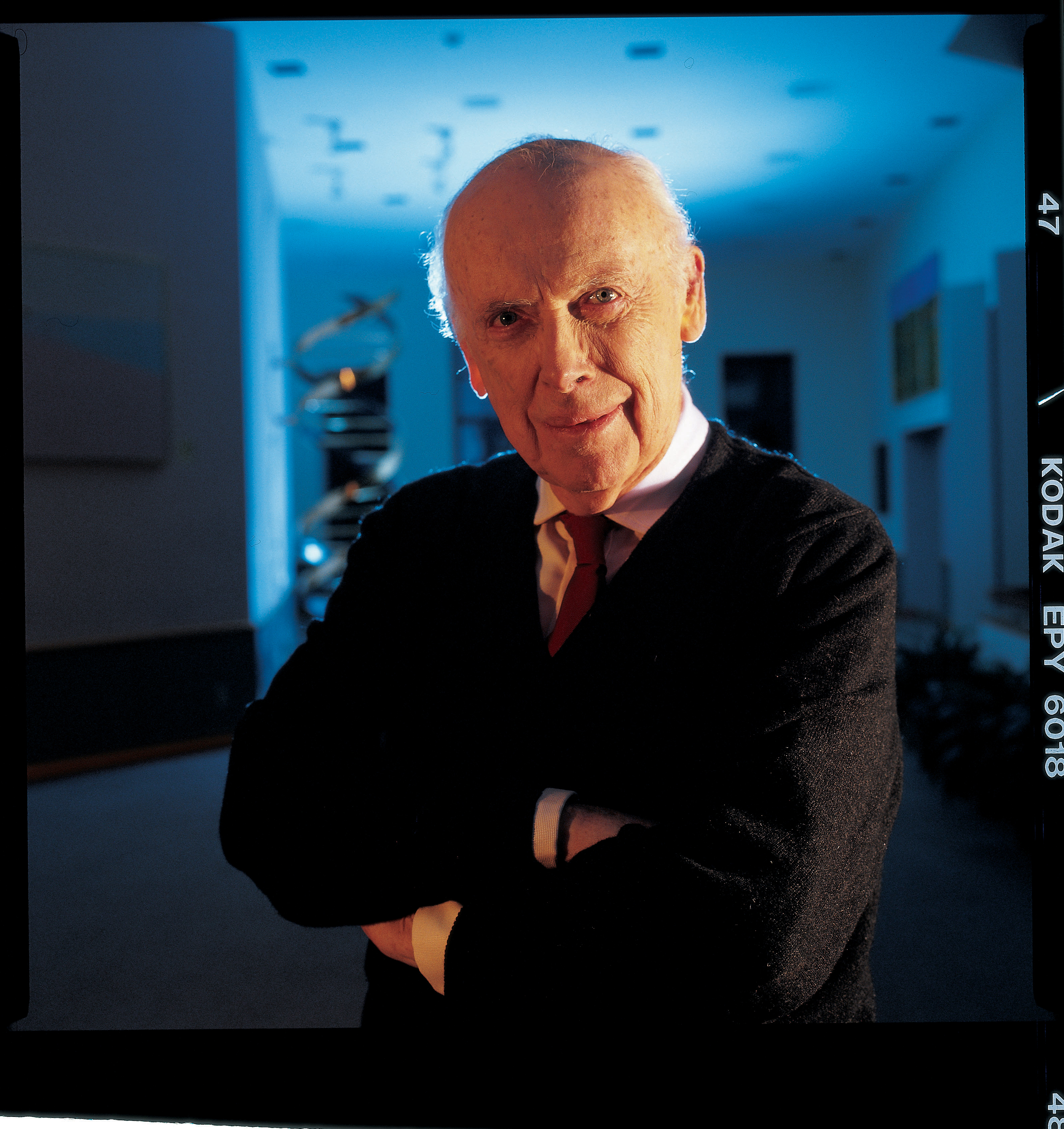 Nobel laureate Dr. James D. Watson, Chancellor, Cold Spring Harbor Laboratory. These images are freely available and may be used without special permission.